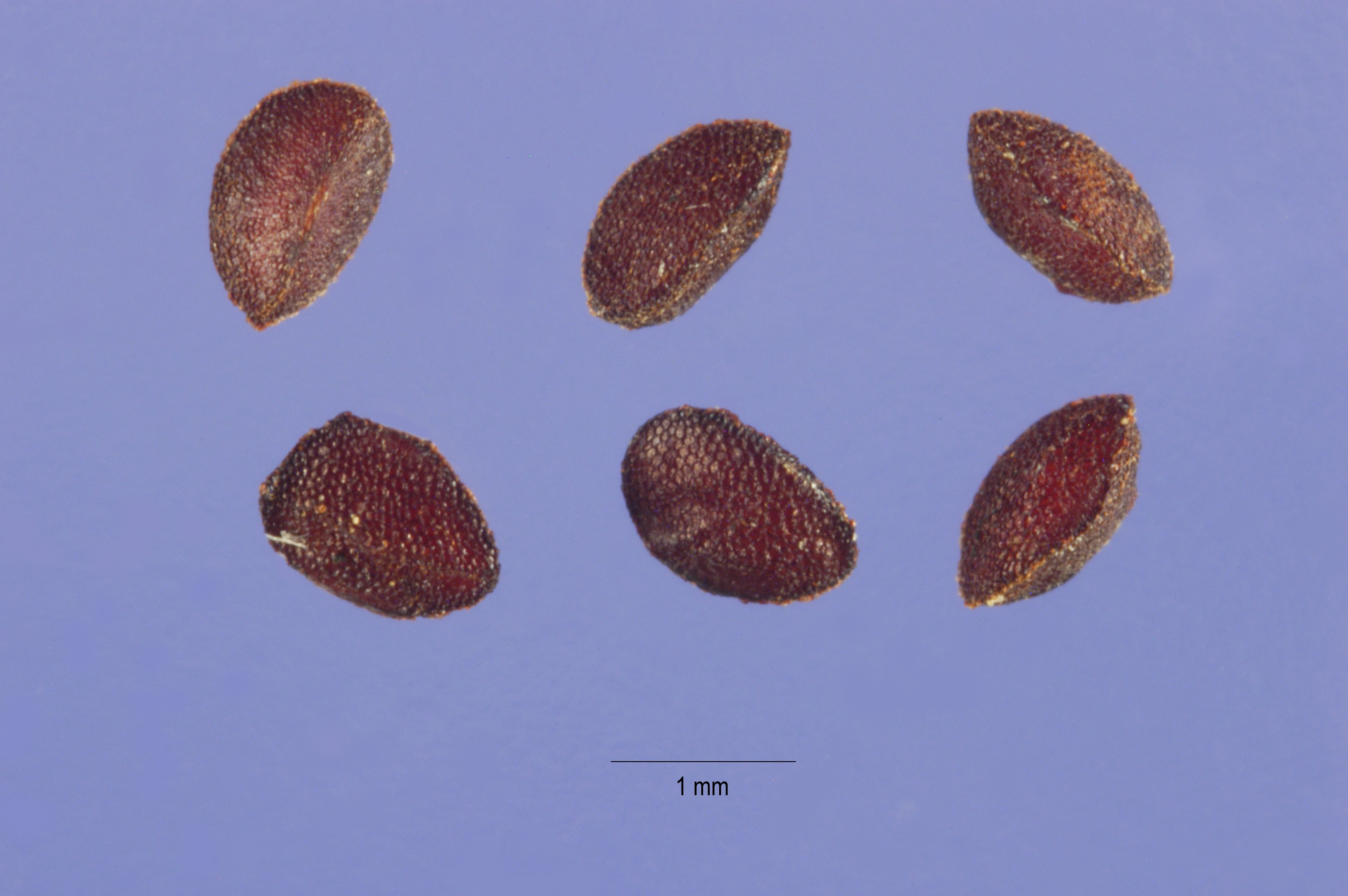 Glaux maritima seeds USDA, NRCS. 2009. The PLANTS Database ( 10 June 2009). National Plant Data Center, Baton Rouge, LA 70874-4490 USA.